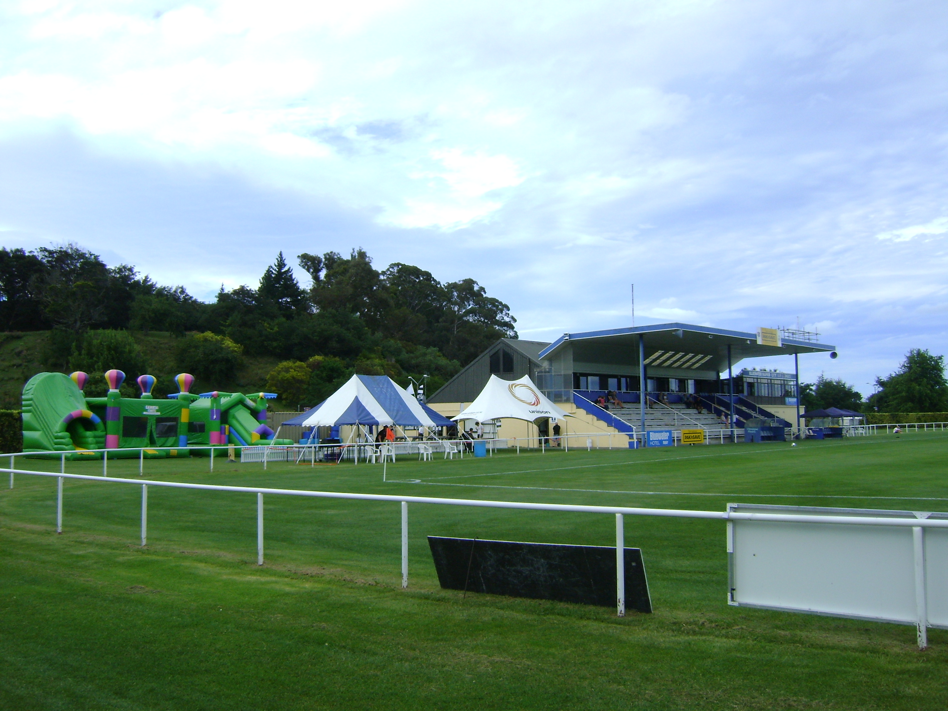 Covered grandstand of Bluewater Stadium, Park Island, Napier